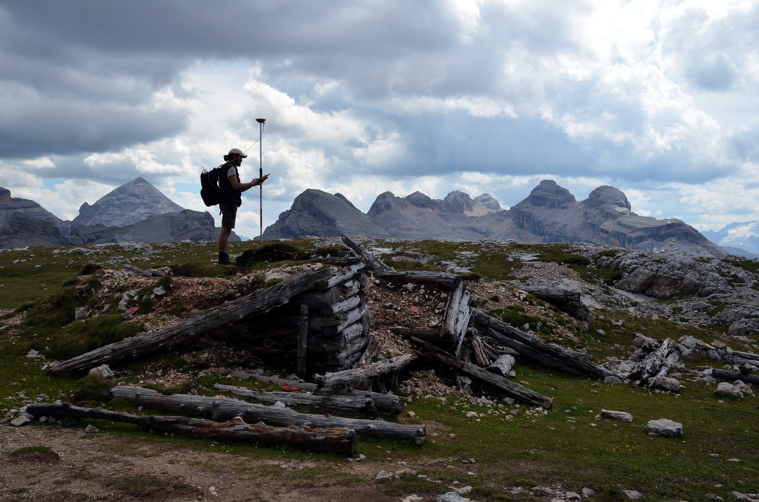 Archaeological documentation of a World War 1 site near Col Bechei (Arc-Team photographic archive)